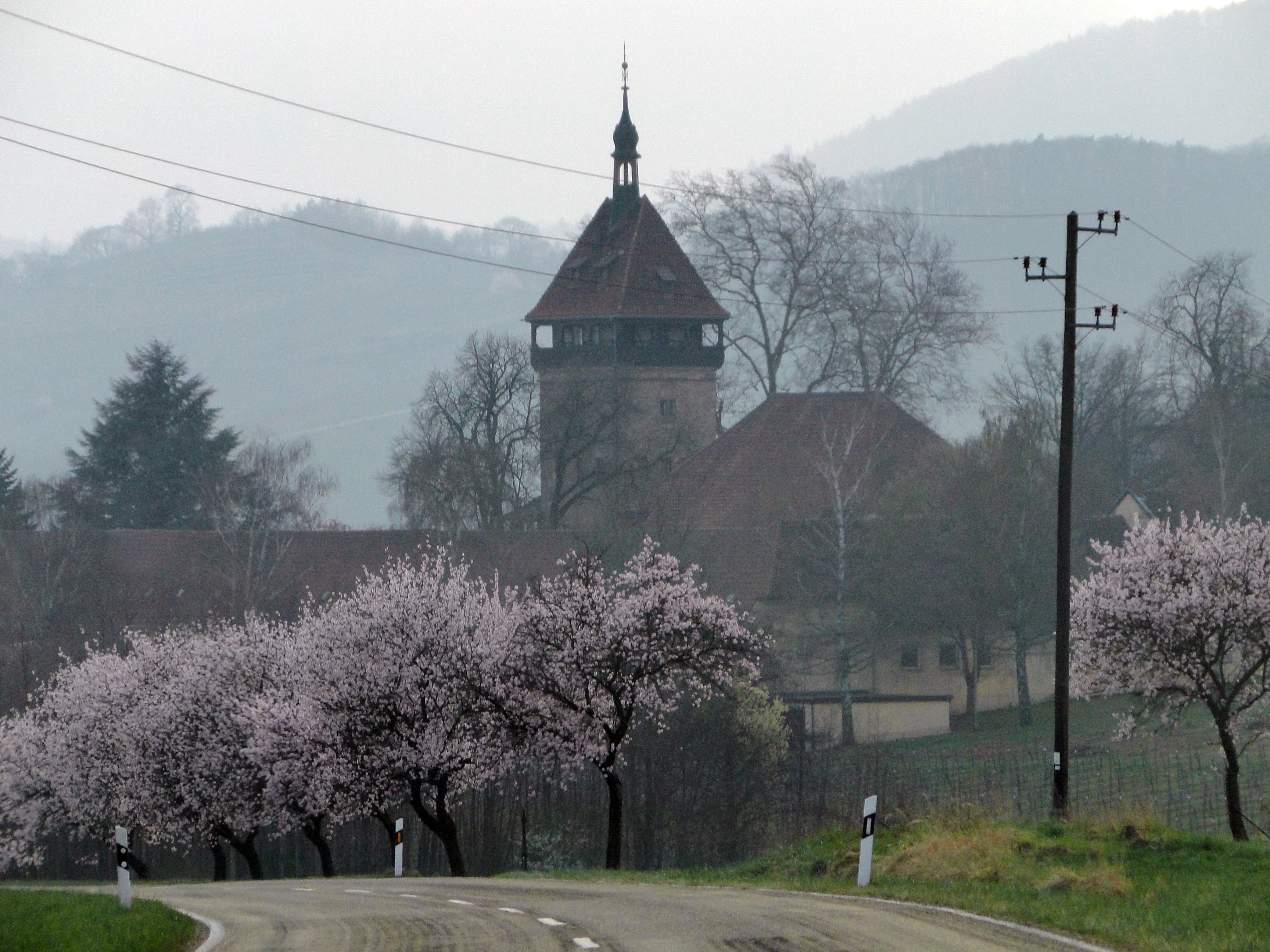 Geilweilerhof in spring time